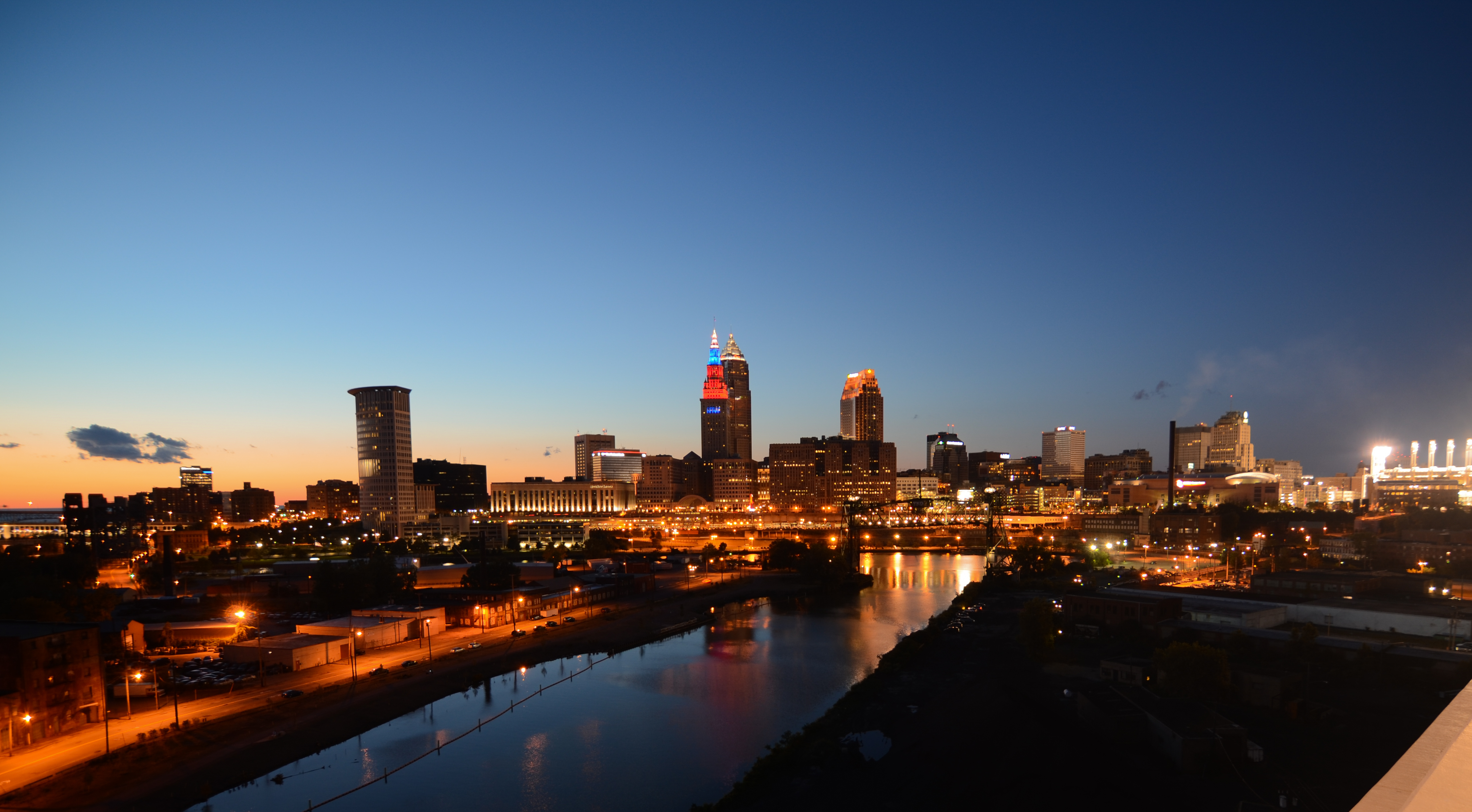 Cleveland, Ohio 4th of July